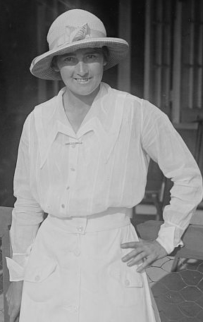 American tennis player Mary Browne (1891-1971) at the 1917 U.S. National Championships